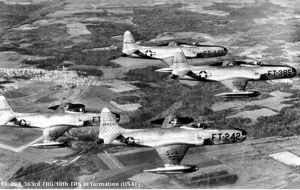 Rf-80s of the 363d Tactical Recon Group - Shaw Air Force Base, SC.